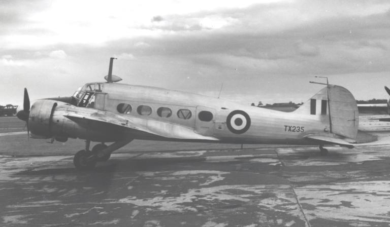 Avro Anson C.19 TX235 of the Royal Air Force at Manchester (Ringway) Airport